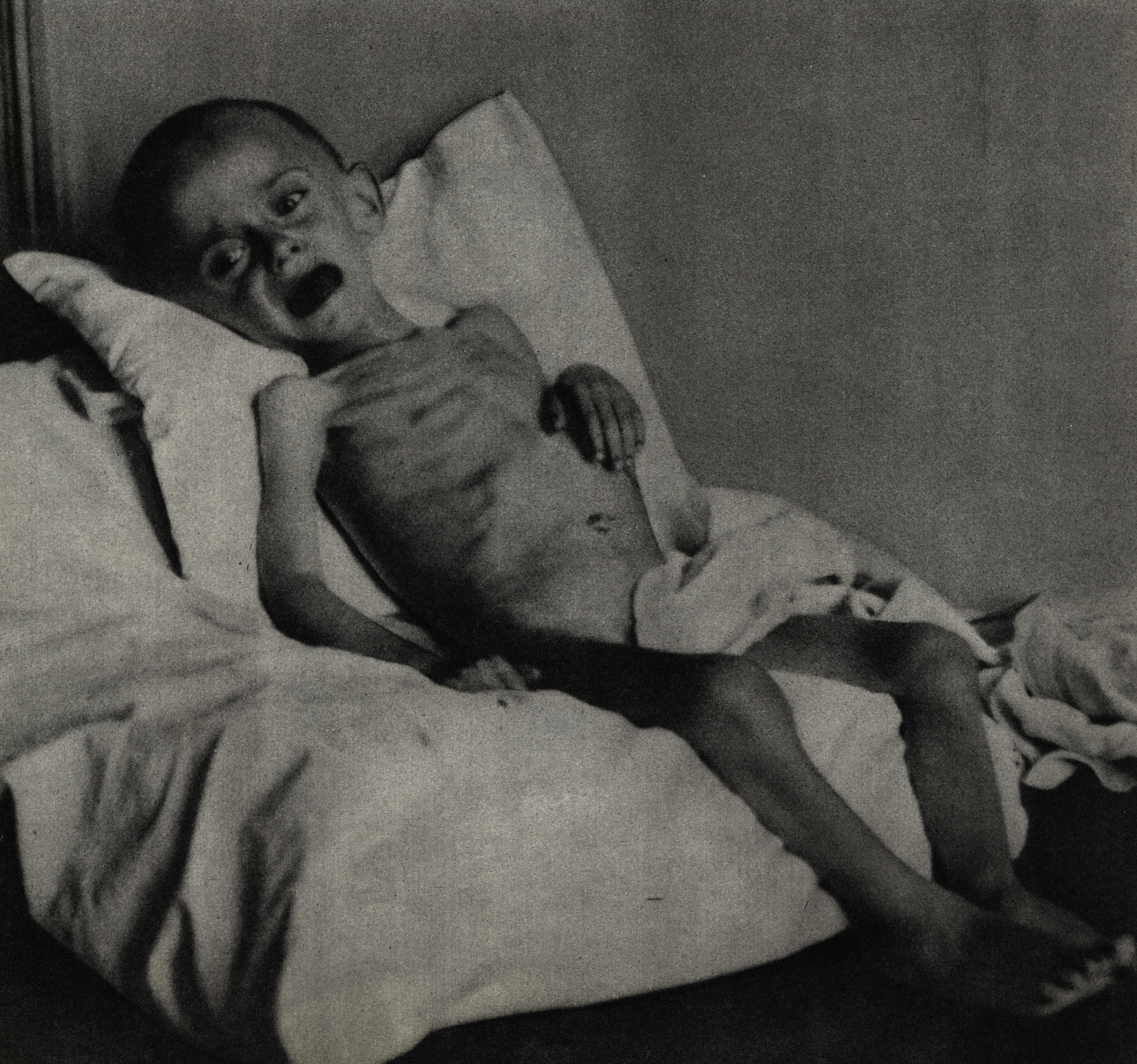 Polish child kidnapped during the Nazi-German resettlement operation at Zamojszczyzna (1942–1943) and deported in harsh conditions to the transit camp at Krochmalna Street in Lublin.